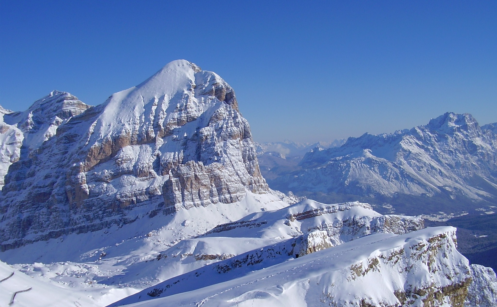 The Tofana di Rozes photographed from the top of Mount Lagazuoi (Cortina d'Ampezzo, ITALY - December 2005).